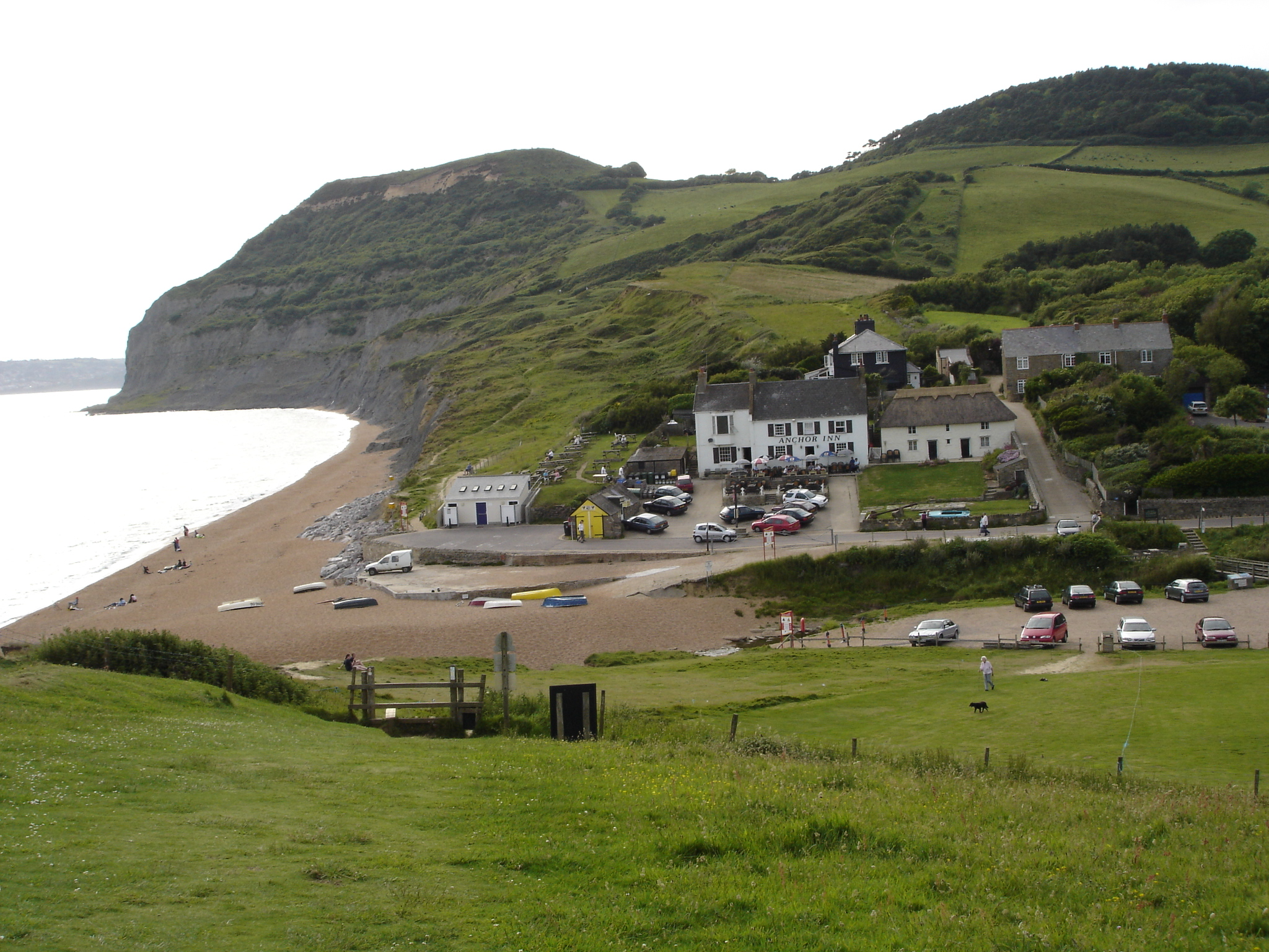 The beach at Seatown (Dorset)